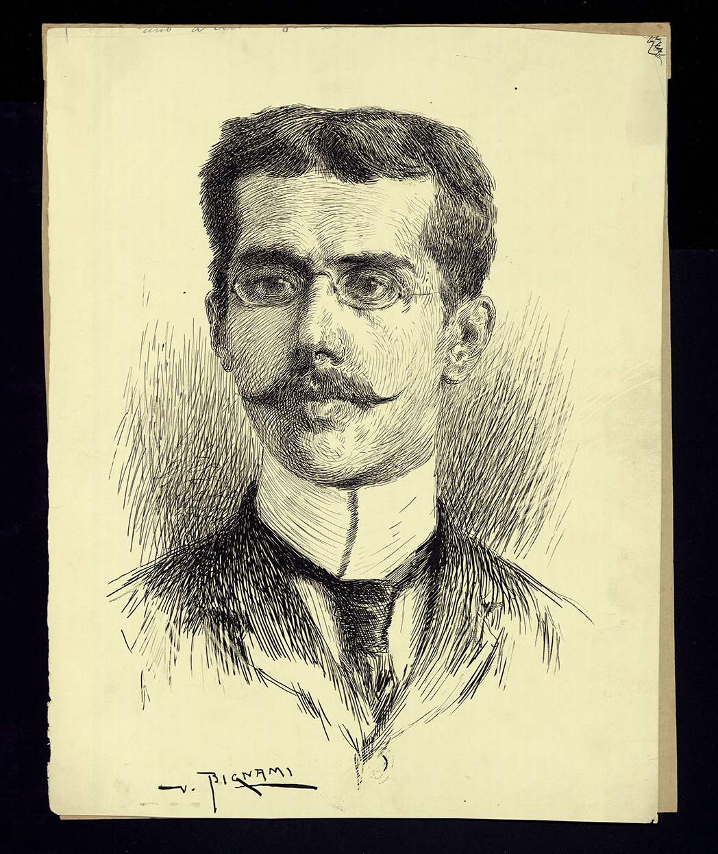 Portrait of Niccolò van Westerhout, composer (1857-1898), before 1929.